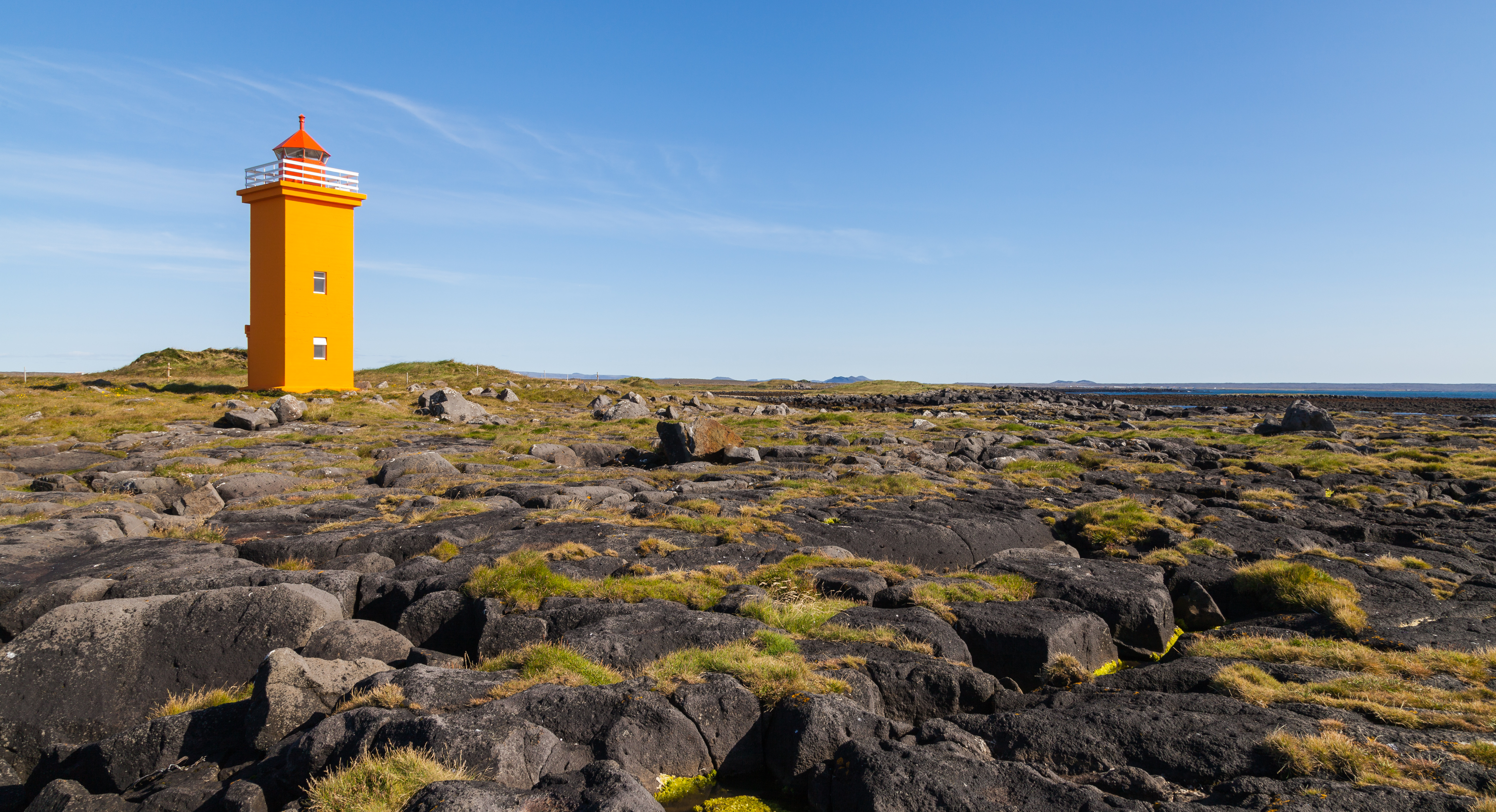 Stafnes lighthouse, Suðurnes, Iceland